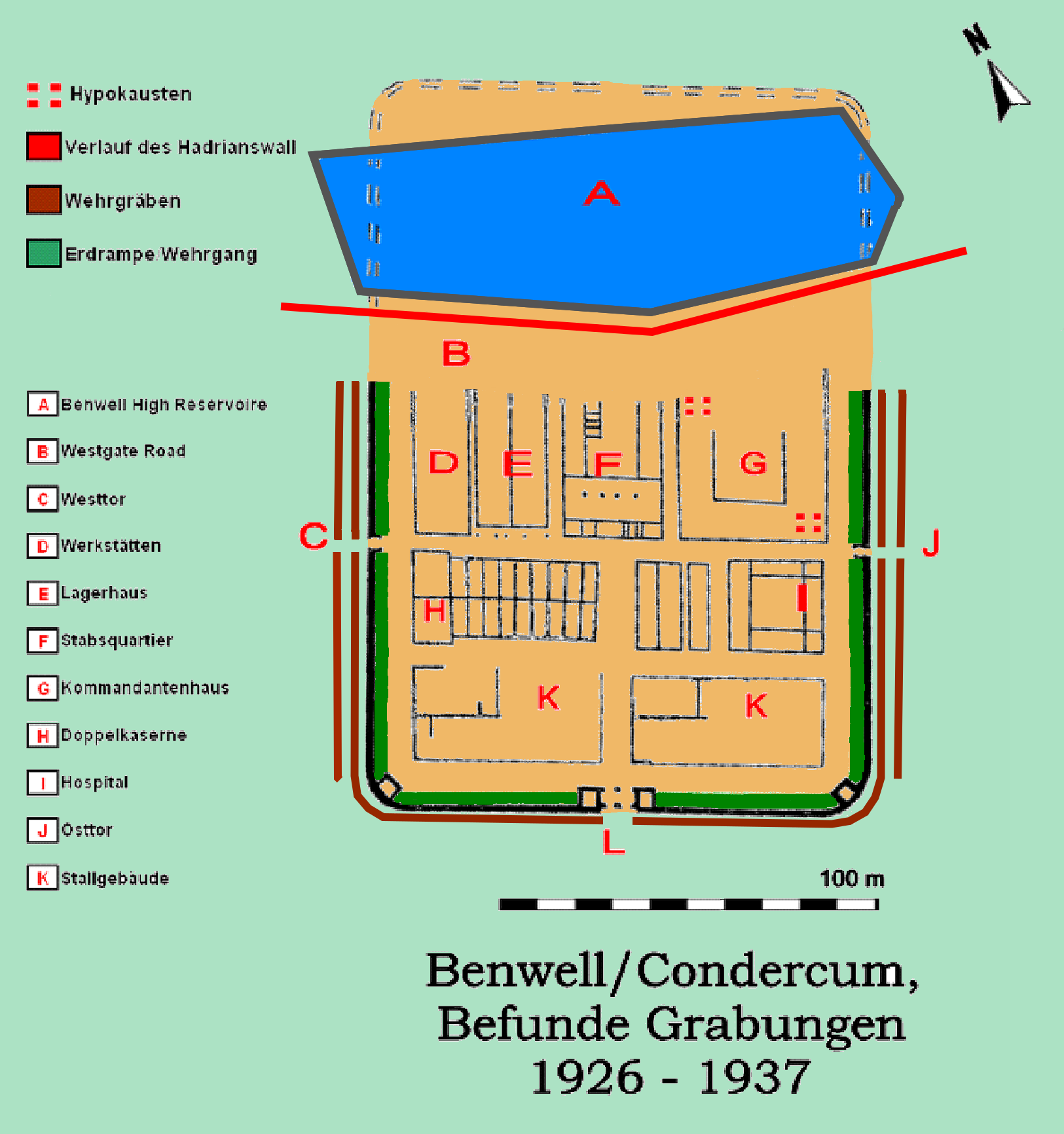 Exkavationplan 1926-1937, Condercum/Benwell (GB).